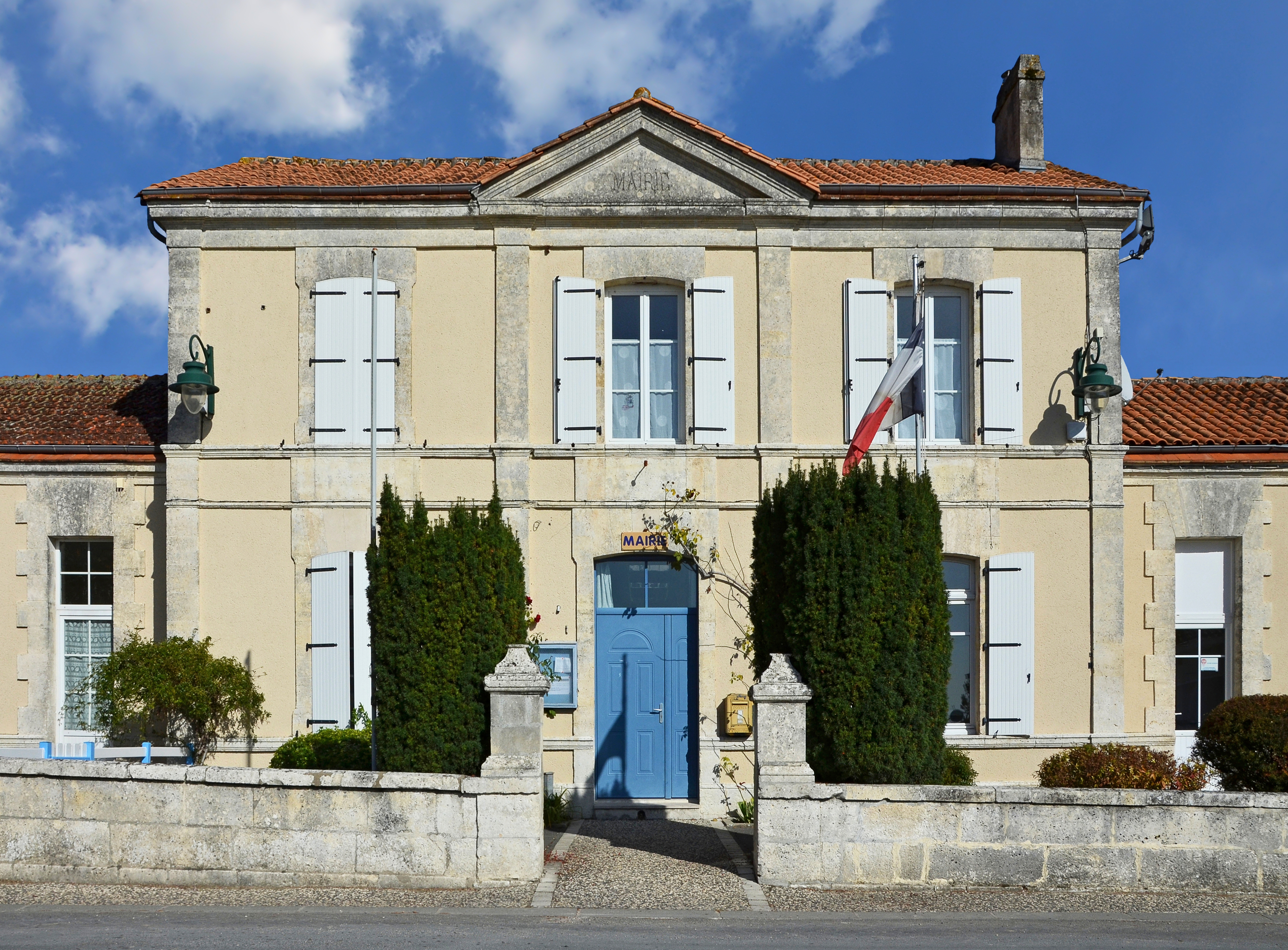 Town hall of Magnac-lavalette-Villars (facade), Charente, France.